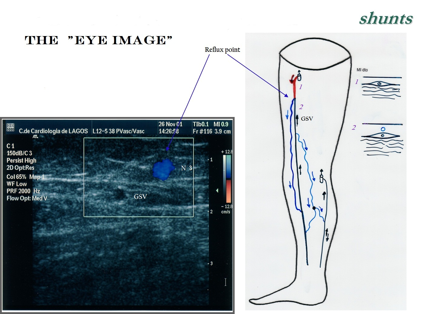 The eye view